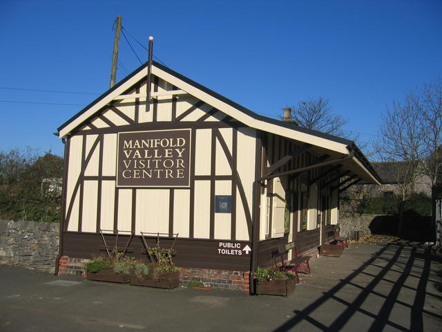 Hulme End Station A close up of the nicely restored Leek and Manifold Railway Station building, now used as a visitor centre for the Manifold Valley.